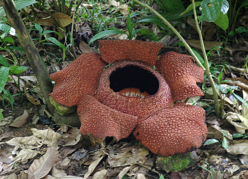 The Rafflesia - Rafflesia arnoldii - The largest flower of the world